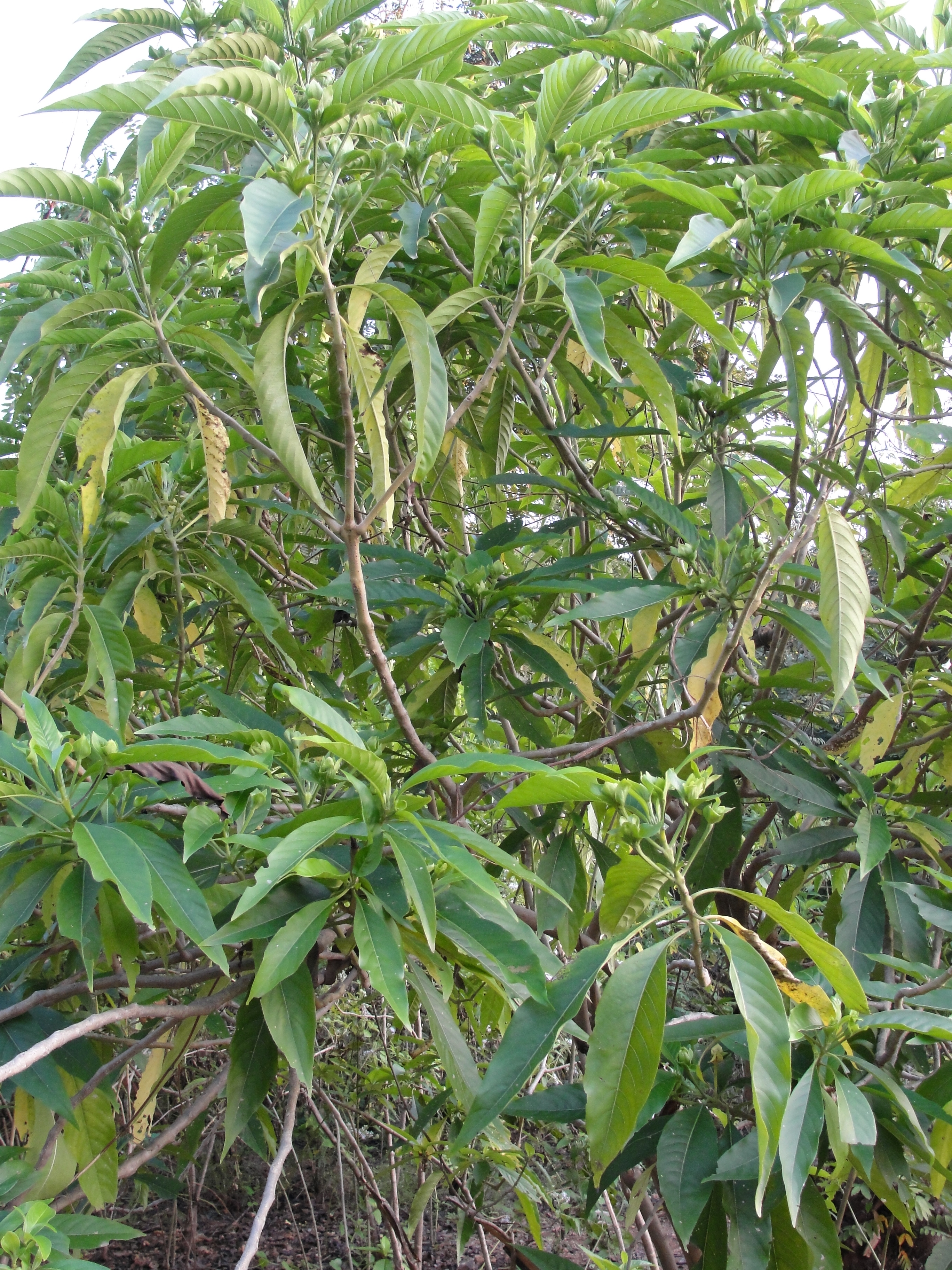 Adhatoda vasica. Location: A herbal Garden in Forest Extension Center, Sithar Koyil, Salem, Tamil Nadu, India.